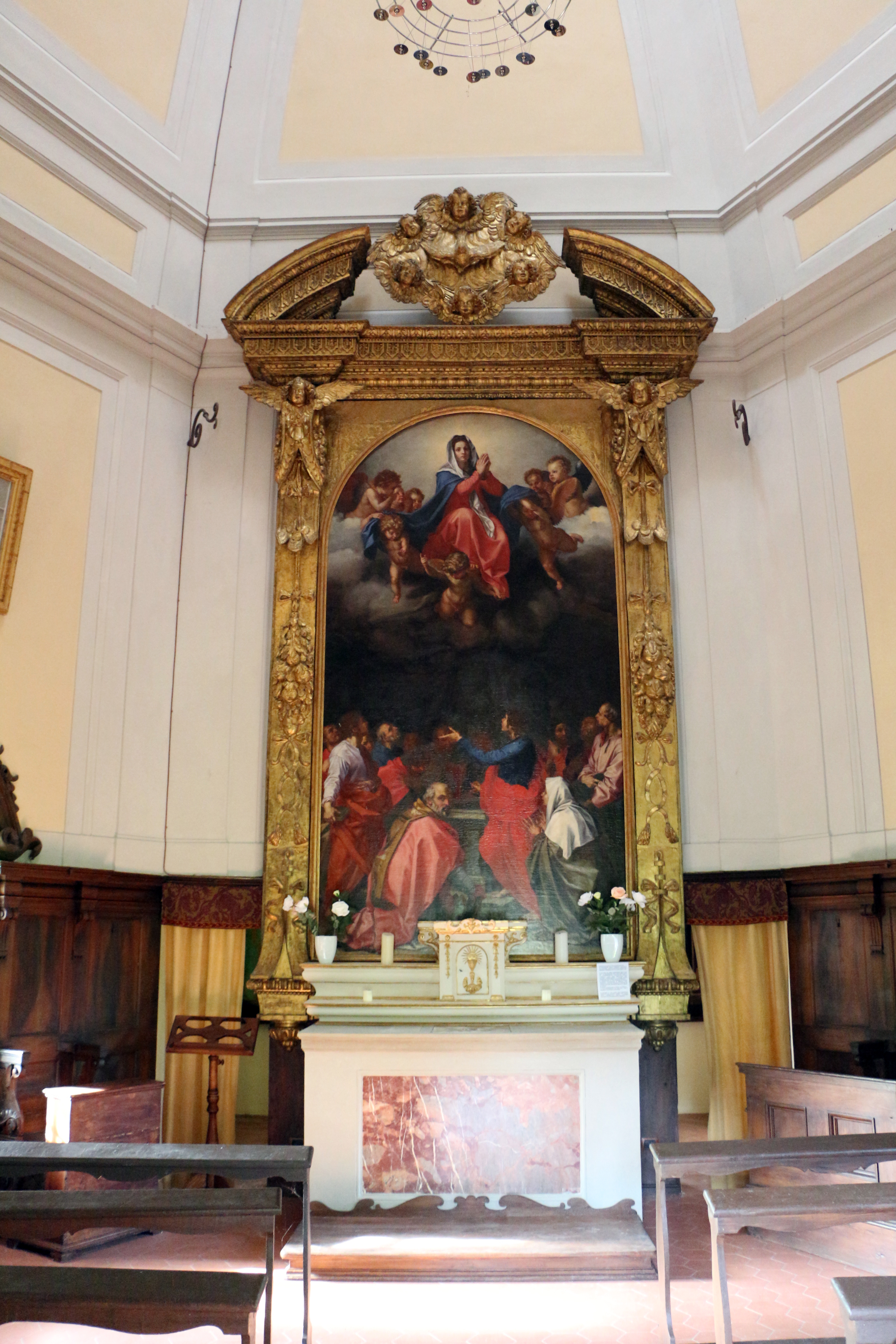 Villa Demidoff (Pratolino) - Chapel